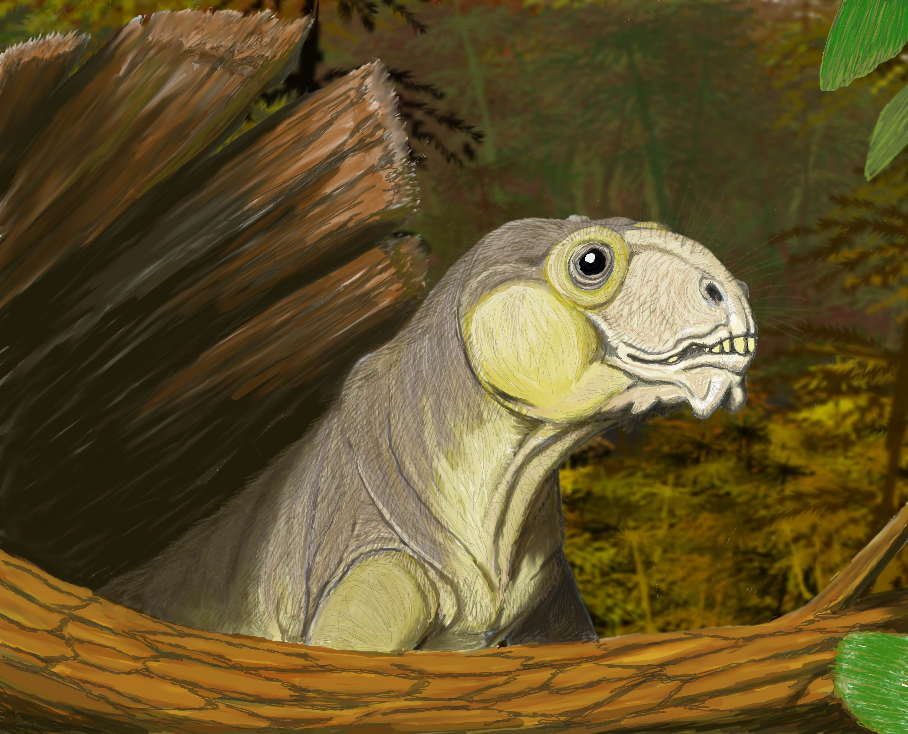 Ulemica sp.